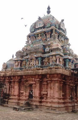 Tirukandisvaram pasupatisvarar temple திருக்கொண்டீஸ்வரம் பசுபதீஸ்வரர் கோயில்